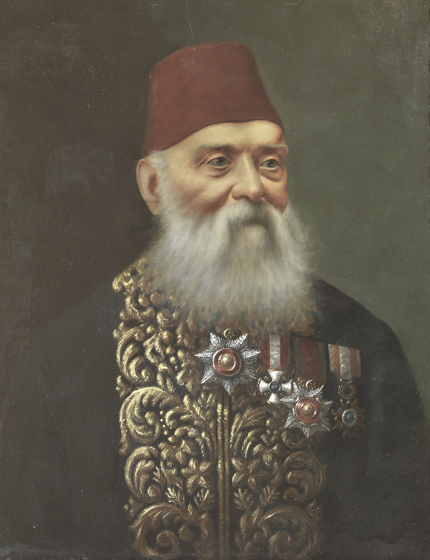 Painting of Topal Izzet Mehmed Pasha